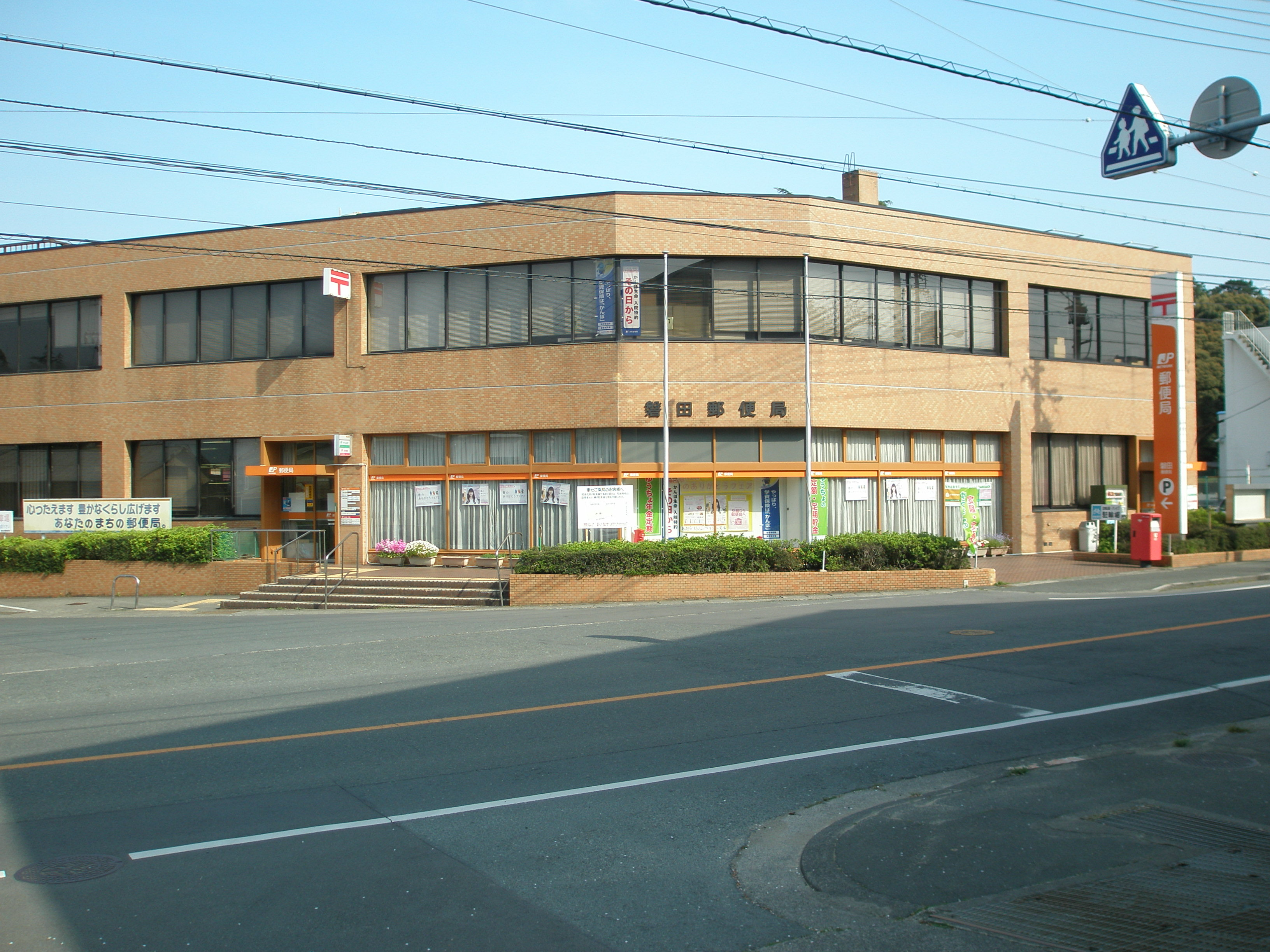 JP NETWORK Iwata post office